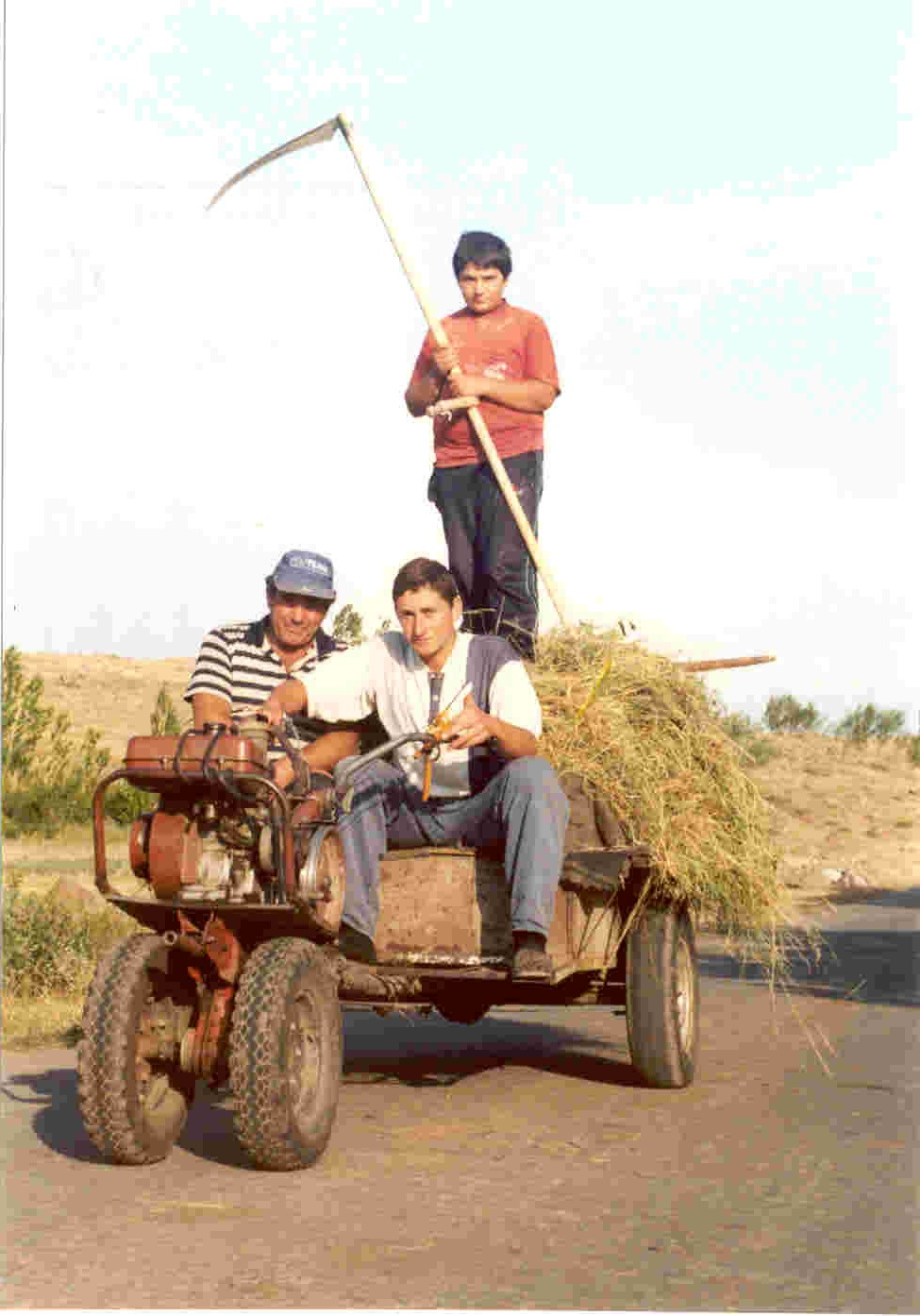 Armenian Farmers with some Fodder.